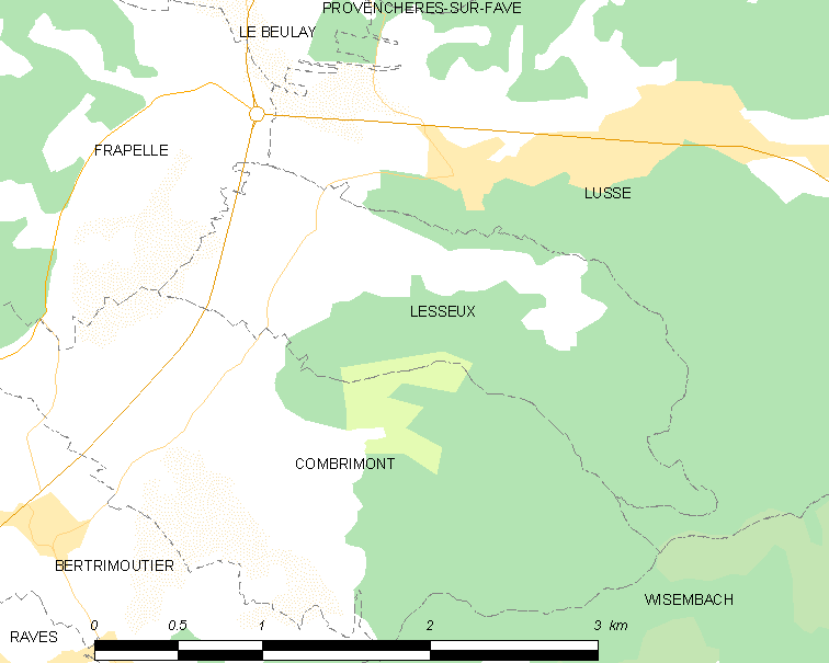 Map of French municipality Lesseux